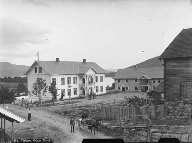 Odnes hotel in Søndre Land, Oppland, Norway. Photo by Axel Lindahl (1841–1906) about 1880–1890